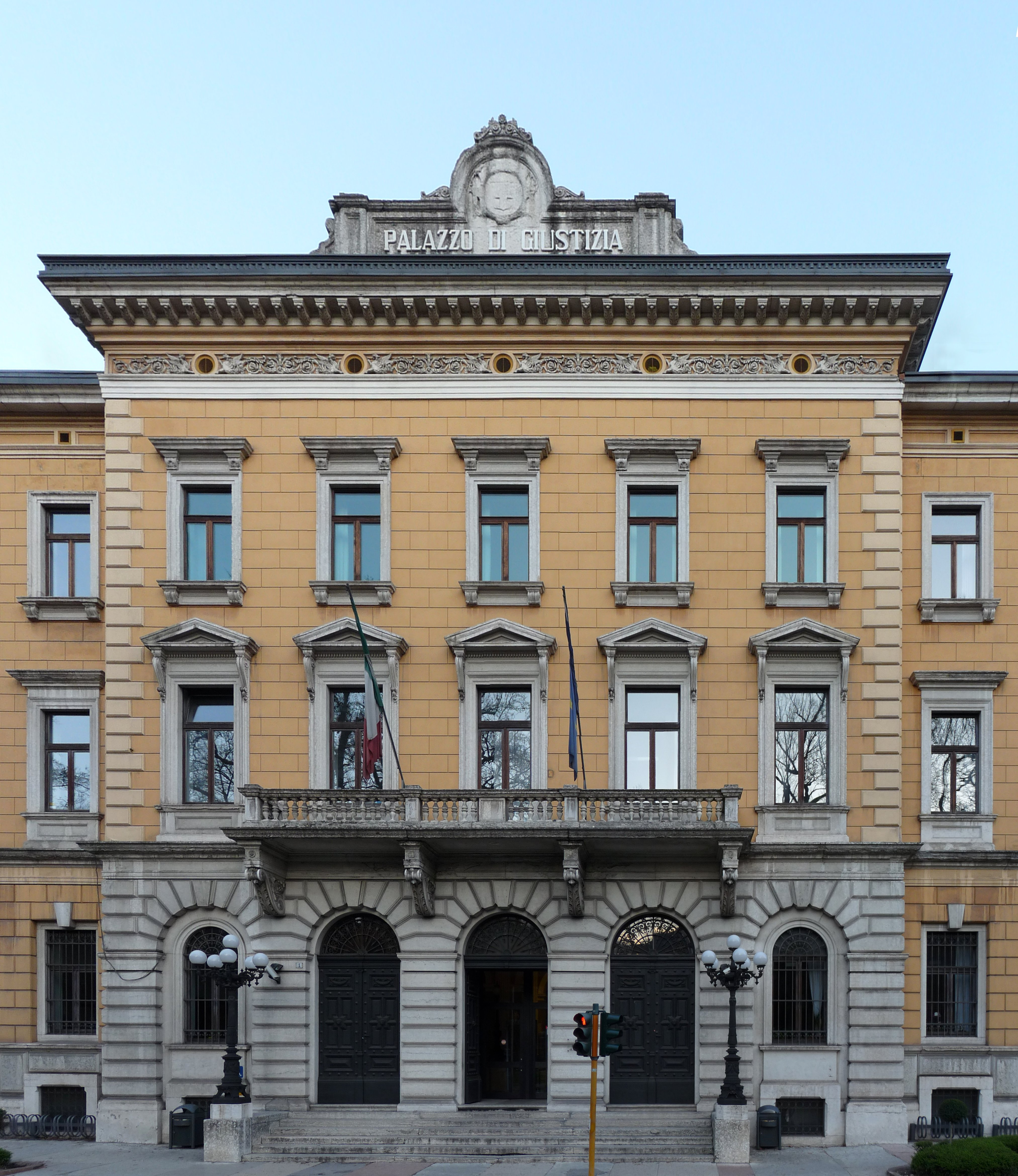 Trento (Italy): front of Palazzo di Giustizia.